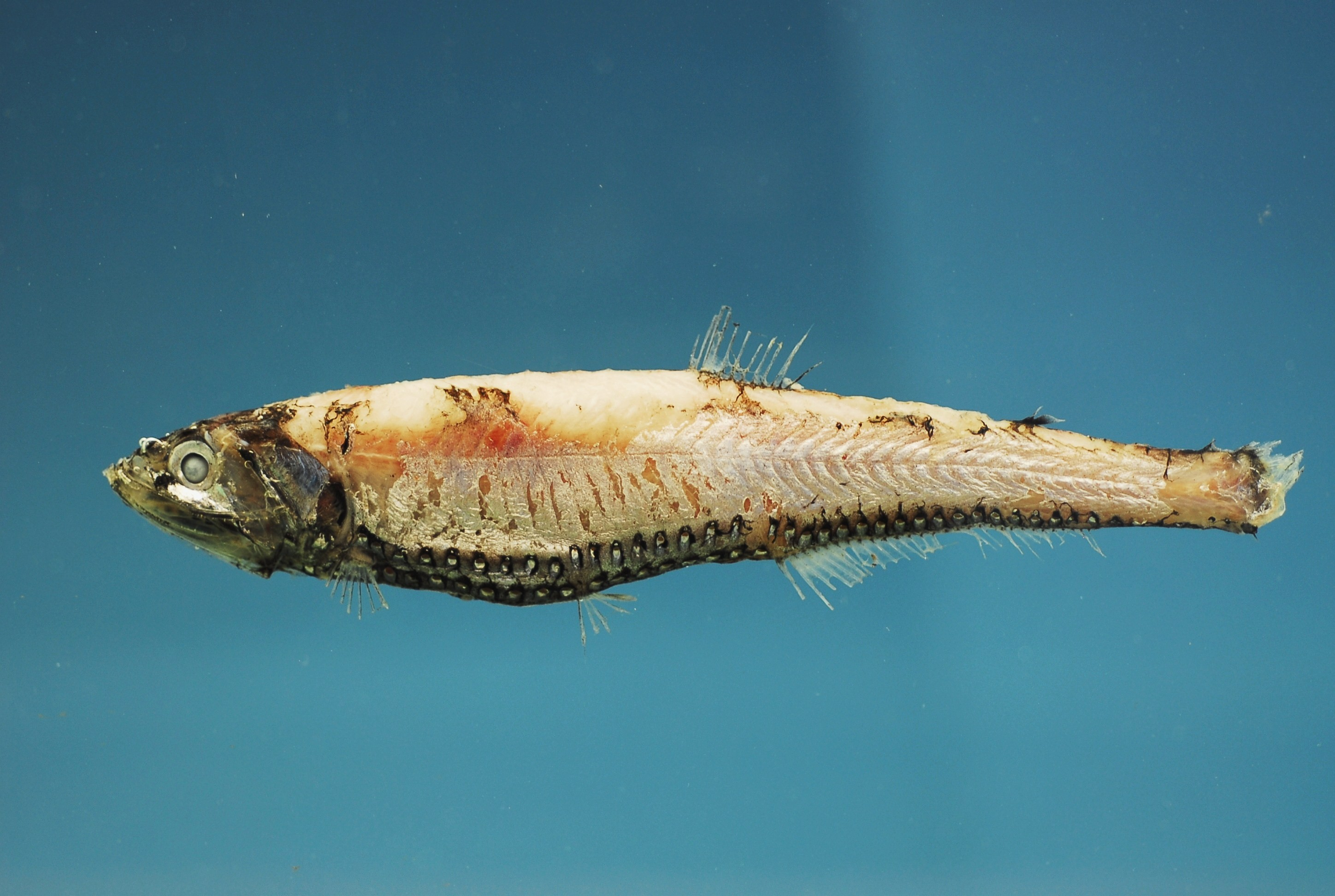 Large-scaled lanternfish or blackchin (Neoscopelus macrolepidotus). Gulf of Mexico.